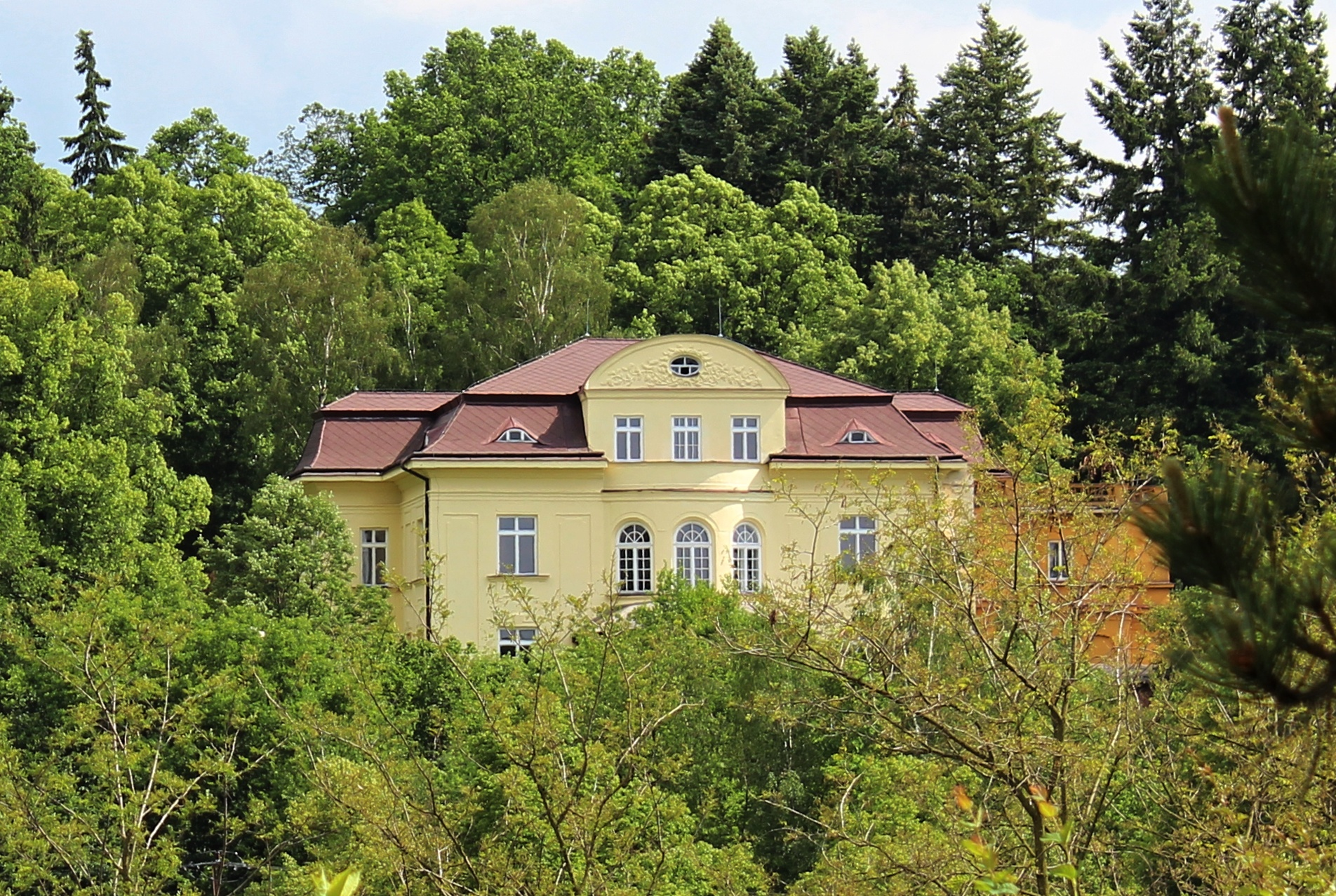 Villa of the Budischowsky family in Borovina in Třebíč